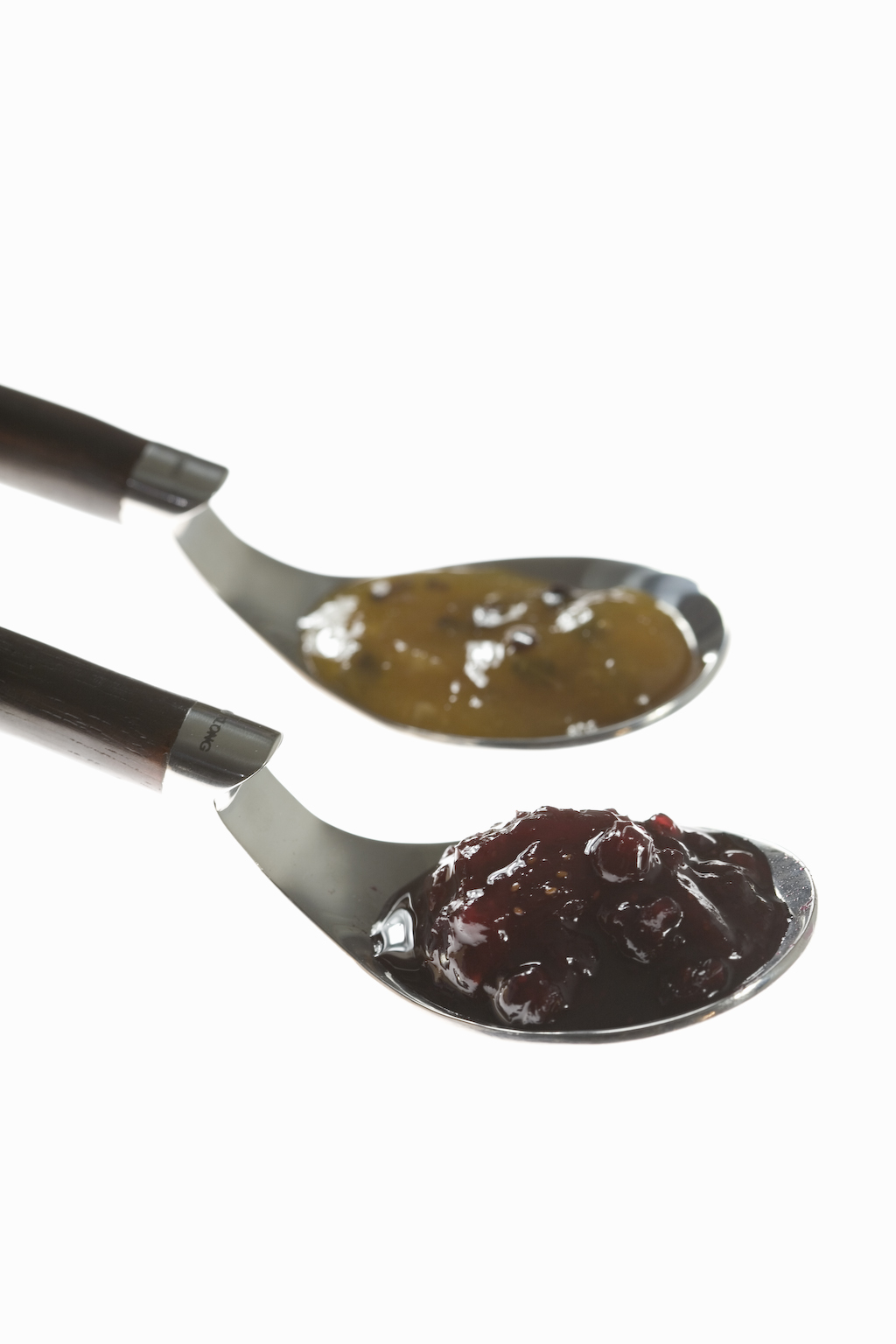 Raberry and lingonberryjam and orangemarmelade with cocoa bean